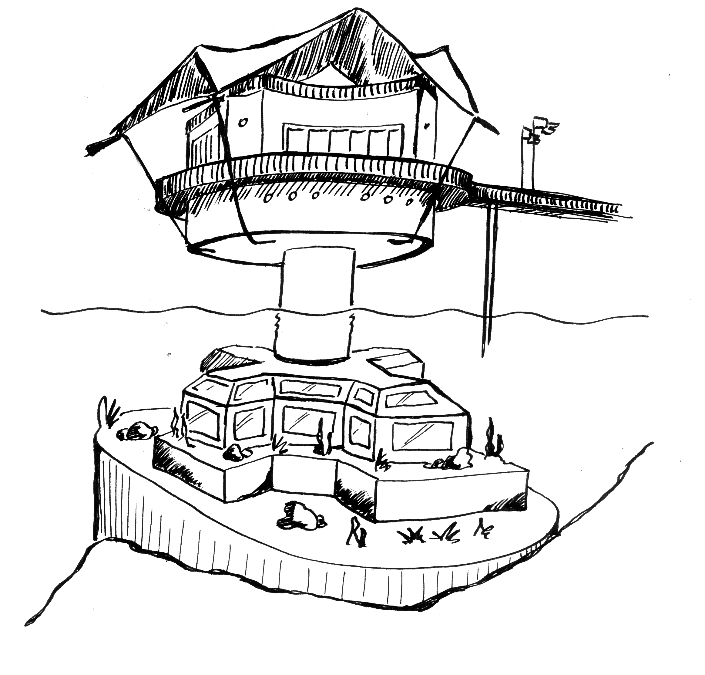 The underwater restaurant 'Red Sea Star' in Eilat/Israel